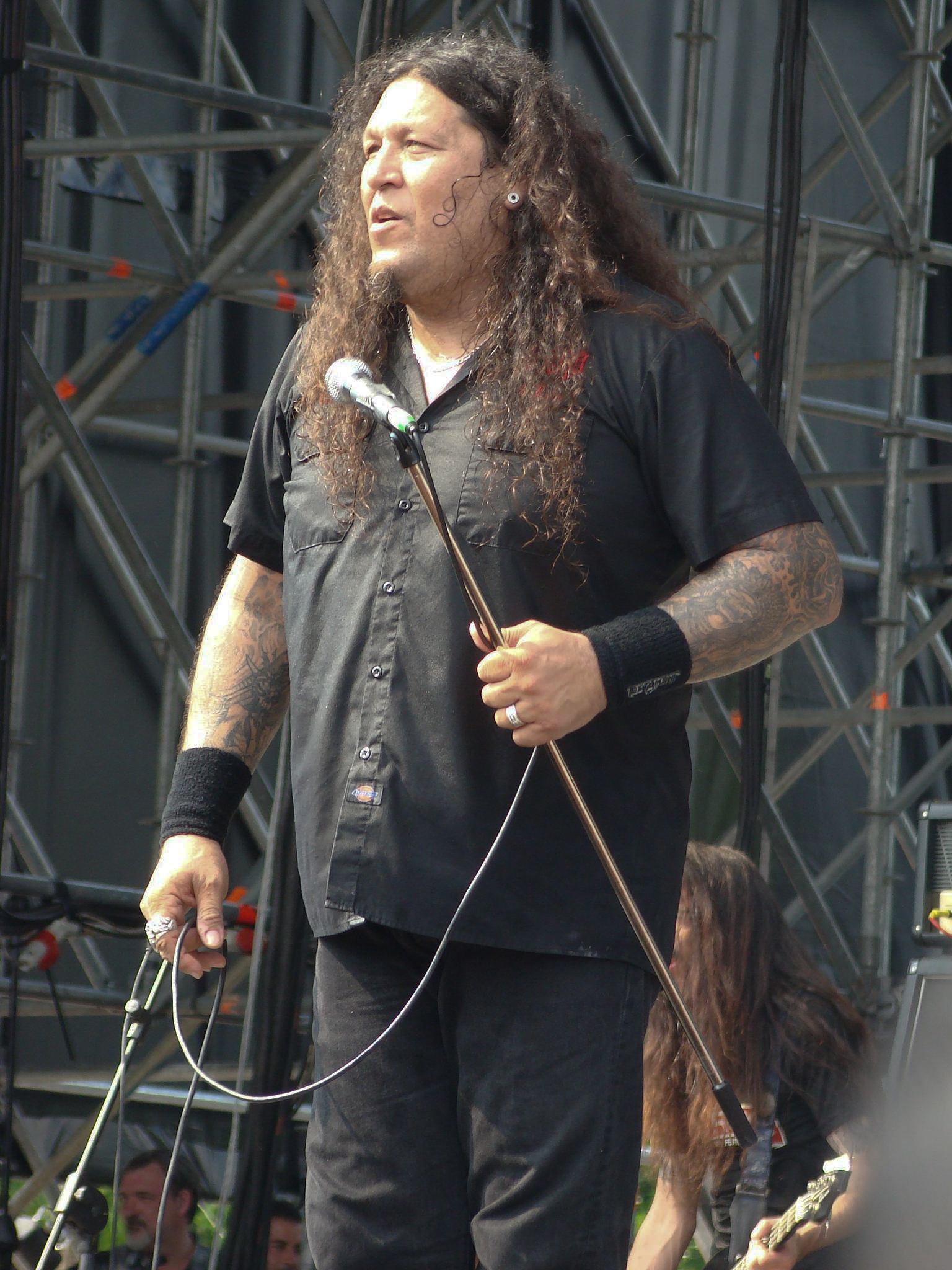 Chuck Billy (Testament) during Gods of Metal 2008